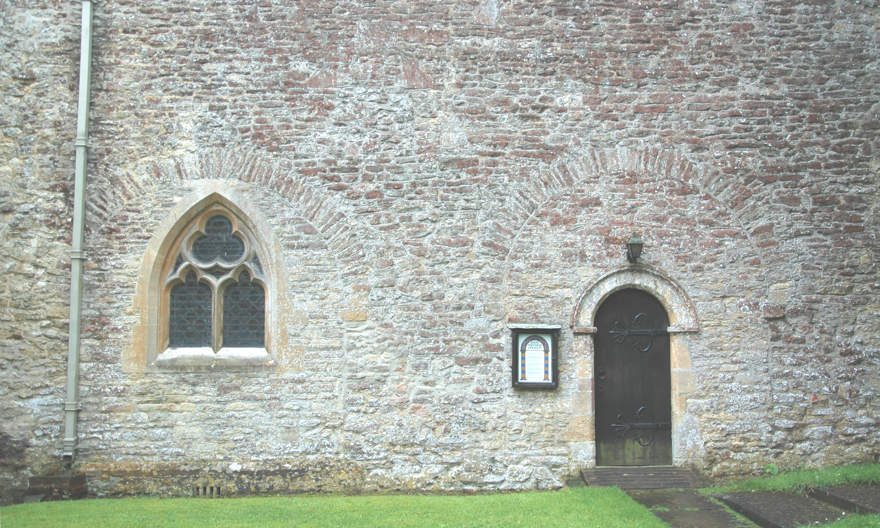 Church of England parish church of St Nicholas, Tackley, Oxfordshire: blocked 11th-century arcade, probably Saxon, on the north side of the nave